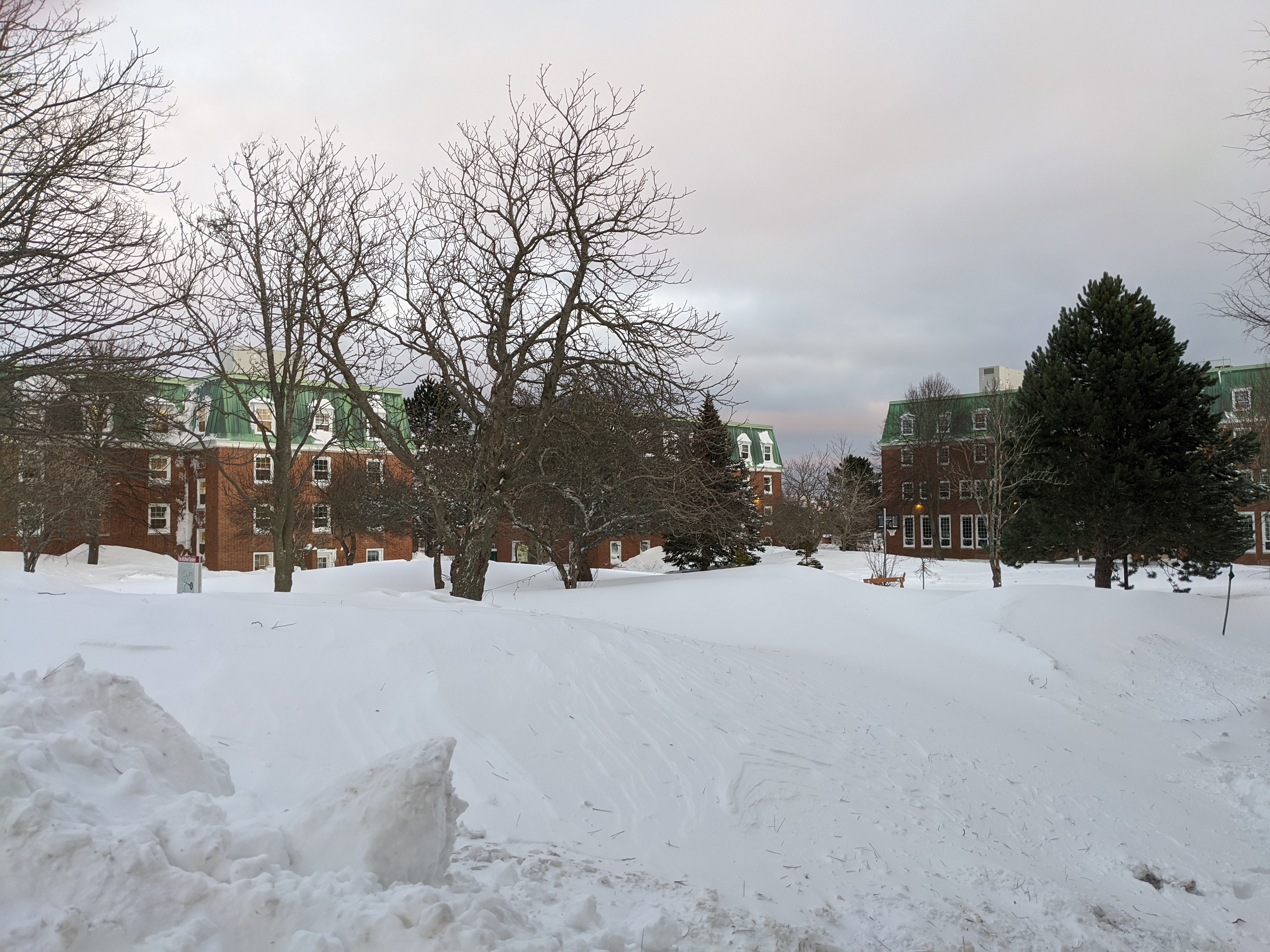 Paton College Student Housing, as of January 18th, 2020.